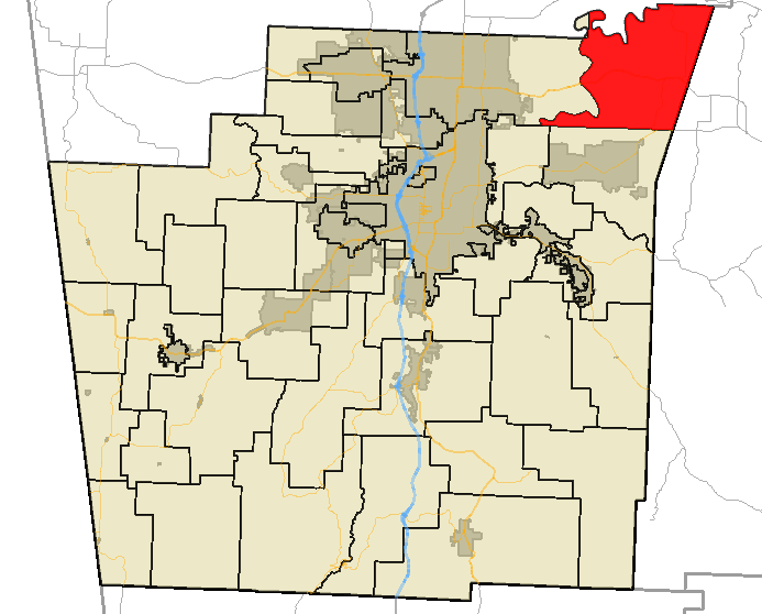 This is a map of Washington County, Arkansas which highlights the location of Brush Creek Township.